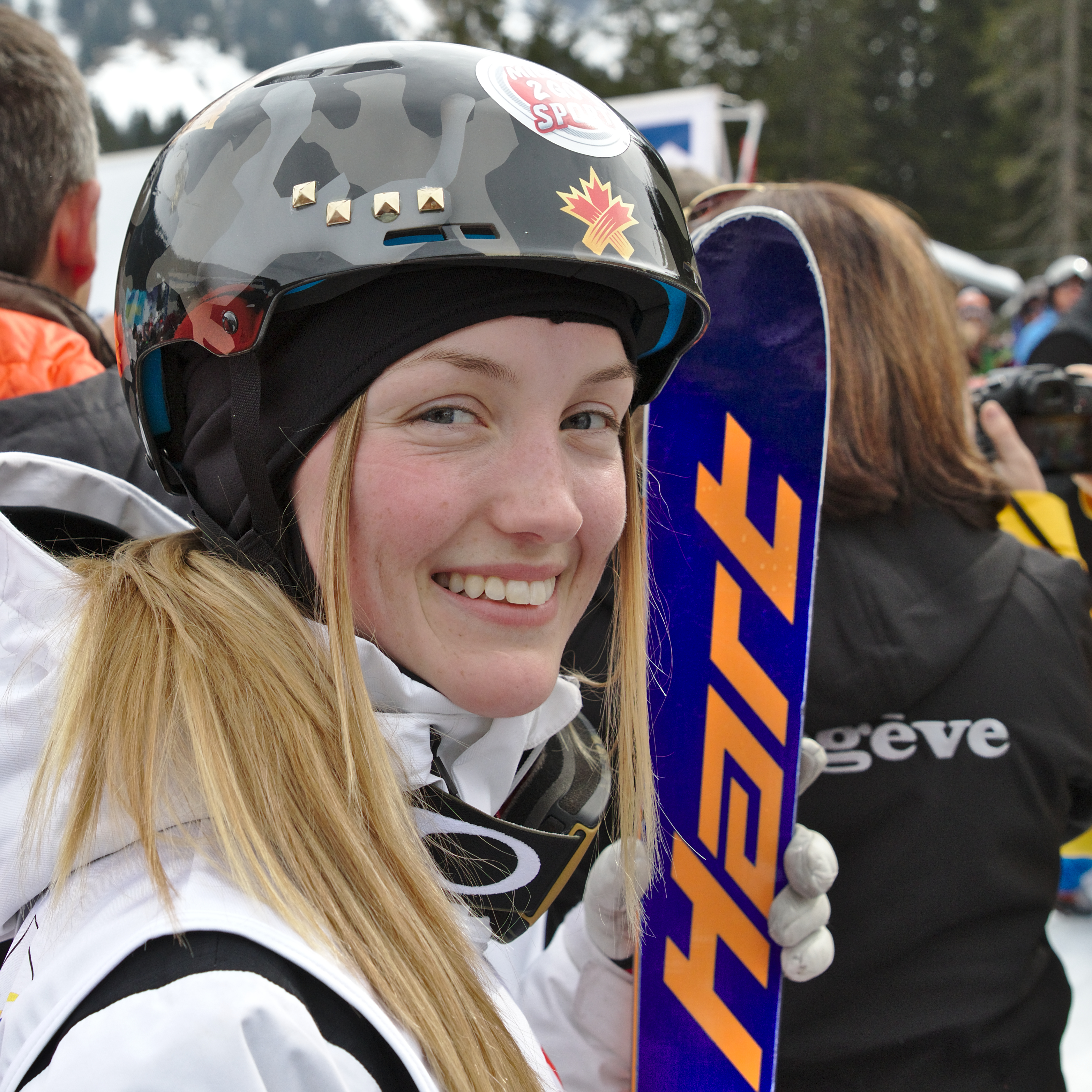 FIS Moguls World Cup 2015 Finals - Megève - 20150315 - Justine Dufour-Lapointe